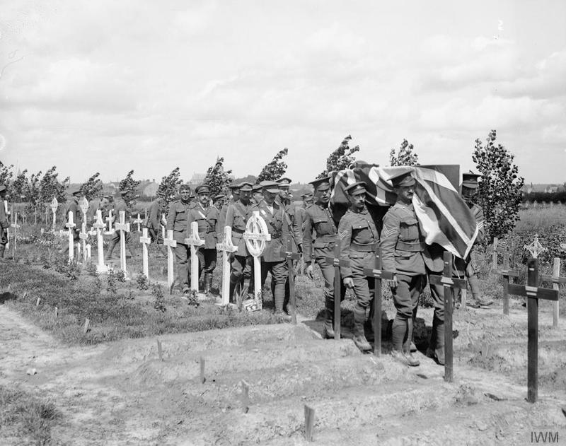 The Battle of Passchendaele, July-november 1917 A Canadian military funeral at a cemetery at Poperinghe, Belgium, 11 August 1917. The coffin is draped with the union flag.